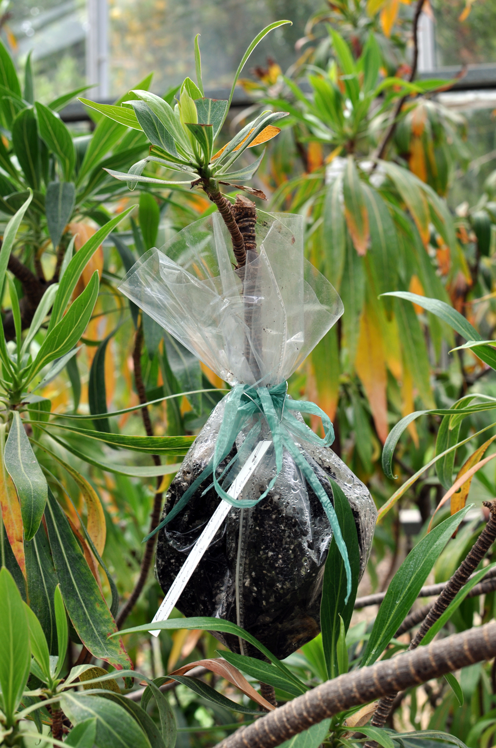 air layering Limonium dendroides Conservatoire botanique national de Brest Native nameConservatoire botanique national de BrestLocationBrest, France, FranceCoordinates48° 24′ 10″ N, 4° 26′ 54″ W Established1975: established, 1978: opened to publicWebsite